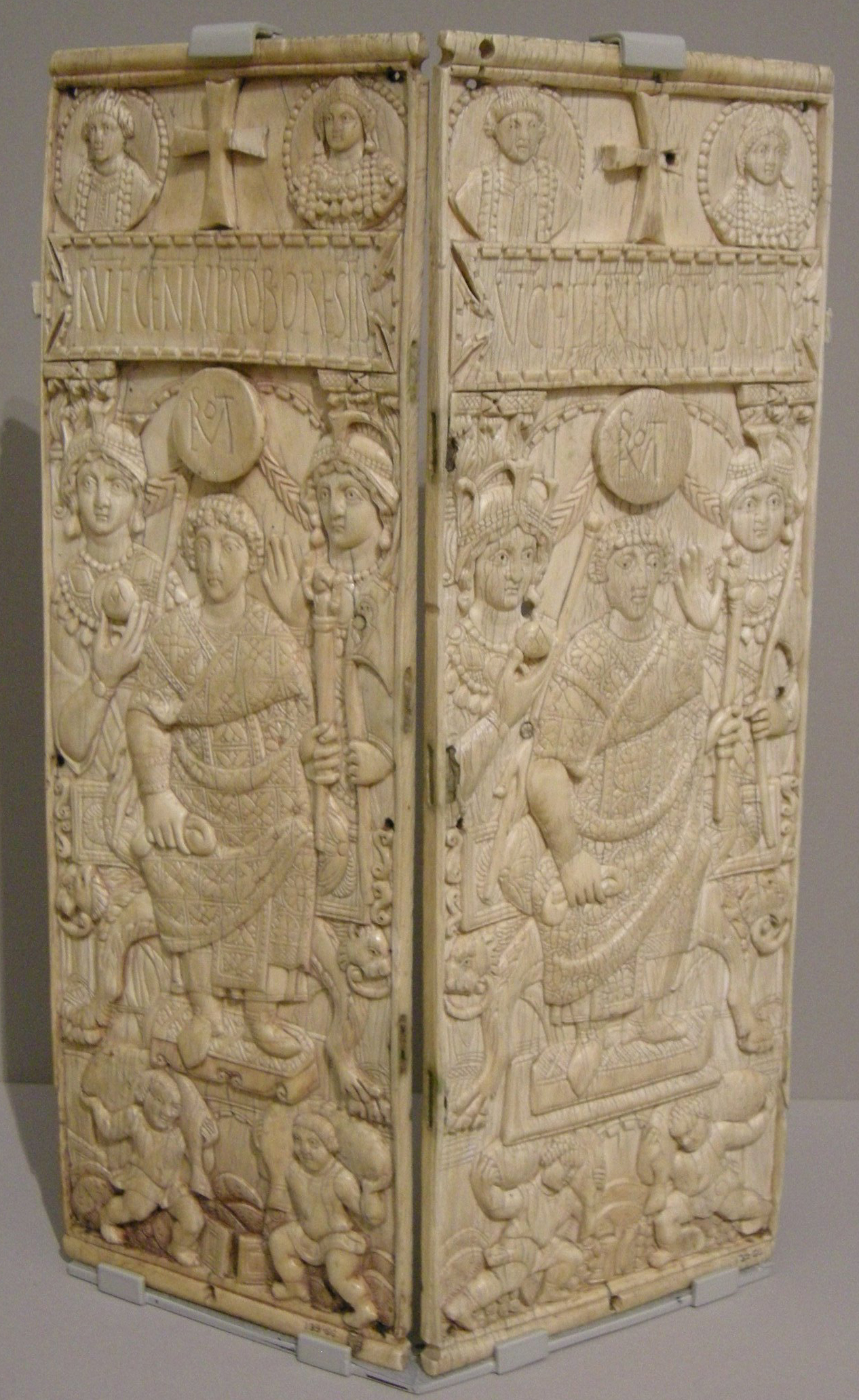 Consular diptych of Rufus Gennadius Probus Orestes. Made in Rome, Italy.